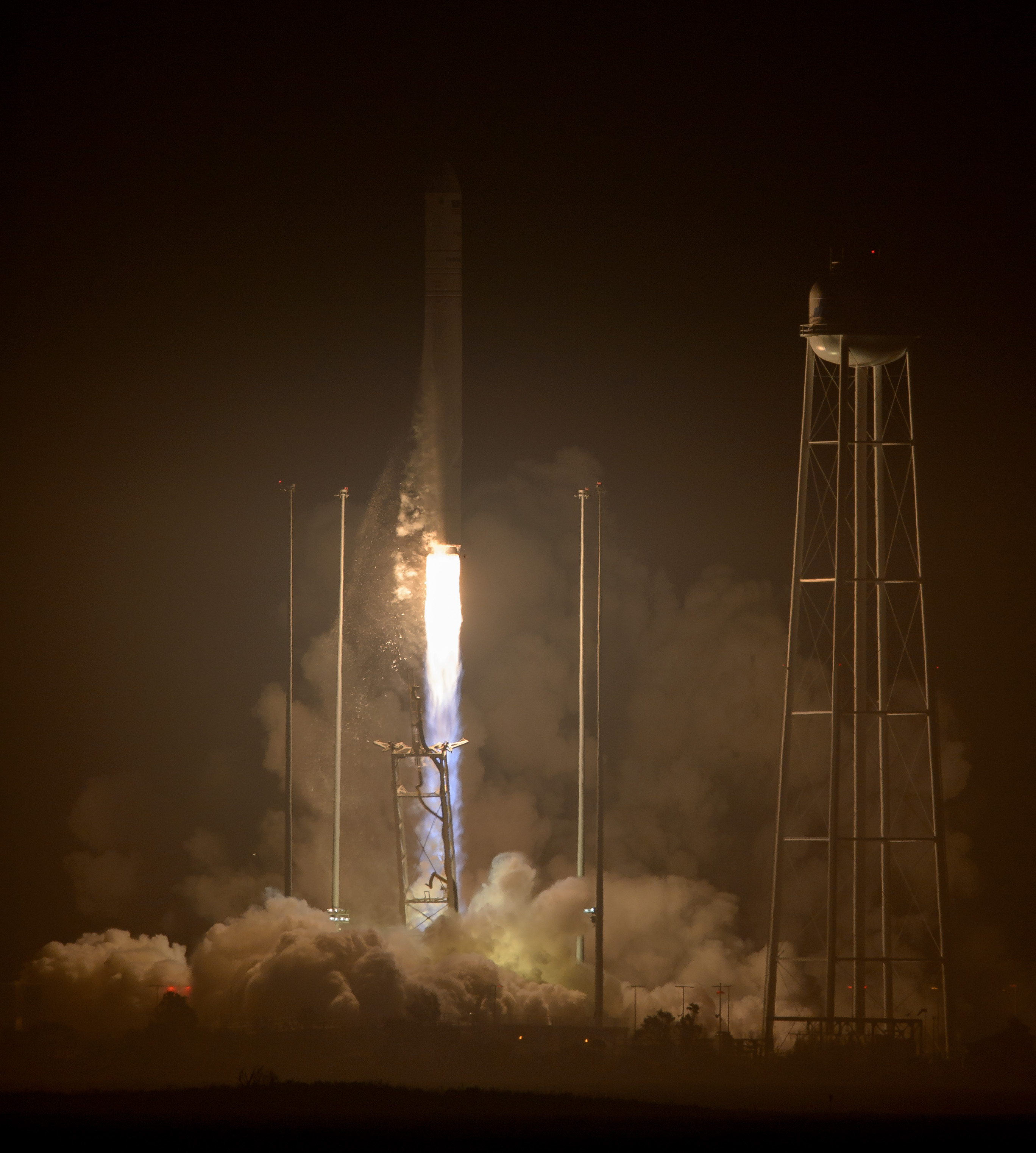 The Orbital ATK Antares rocket, with the Cygnus spacecraft onboard, launches from Pad-0A, Monday, Oct. 17, 2016 at NASA's Wallops Flight Facility in Virginia. Orbital ATK’s sixth contracted cargo resupply mission with NASA to the International Space Station is delivering over 5,100 pounds of science and research, crew supplies and vehicle hardware to the orbital laboratory and its crew.